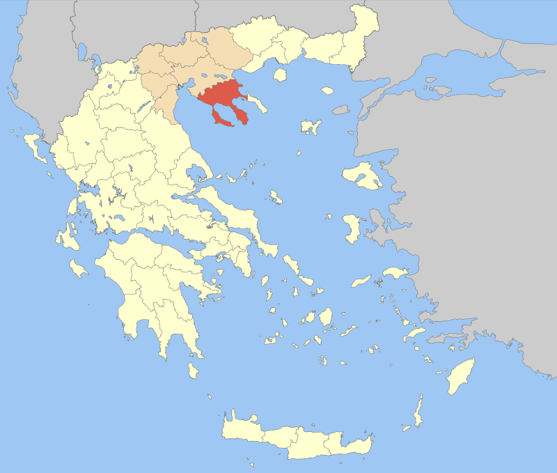 Locator map of Chalkidiki prefecture (Νομός Χαλκιδικής) in Greece